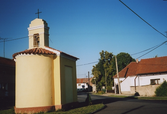 Village of Postovice, District Kladno